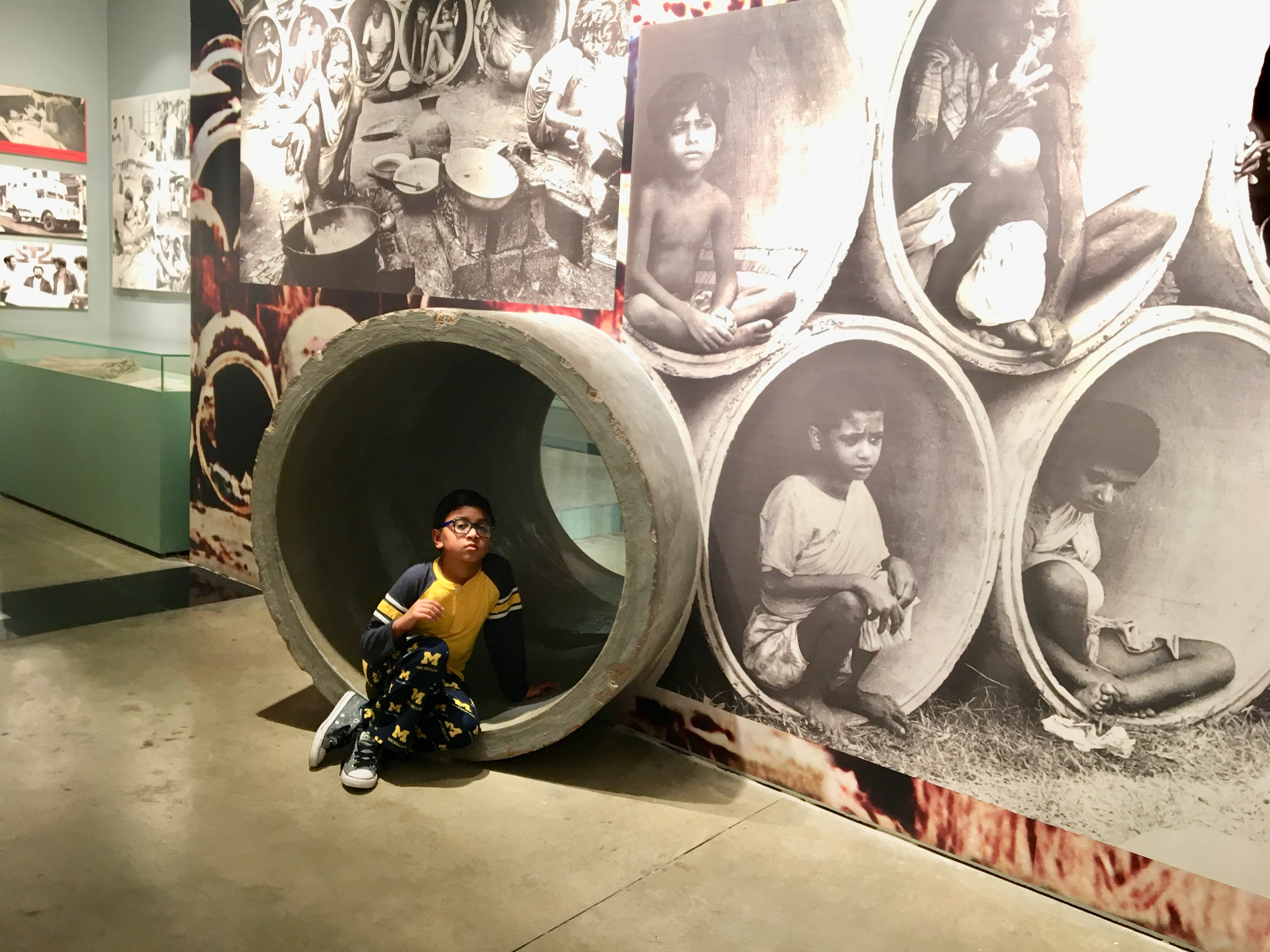 Inside Liberation War Museum, Dhaka